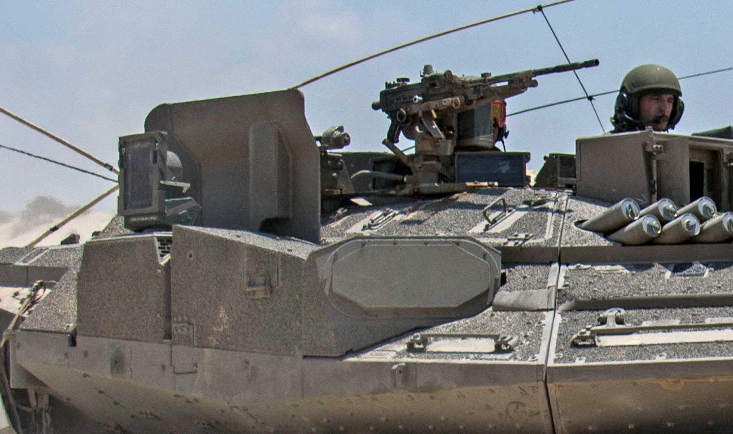 Merkava Mk 4m main battle tank with Trophy Active Protection System (Windbreaker) during Operation Protective Edge